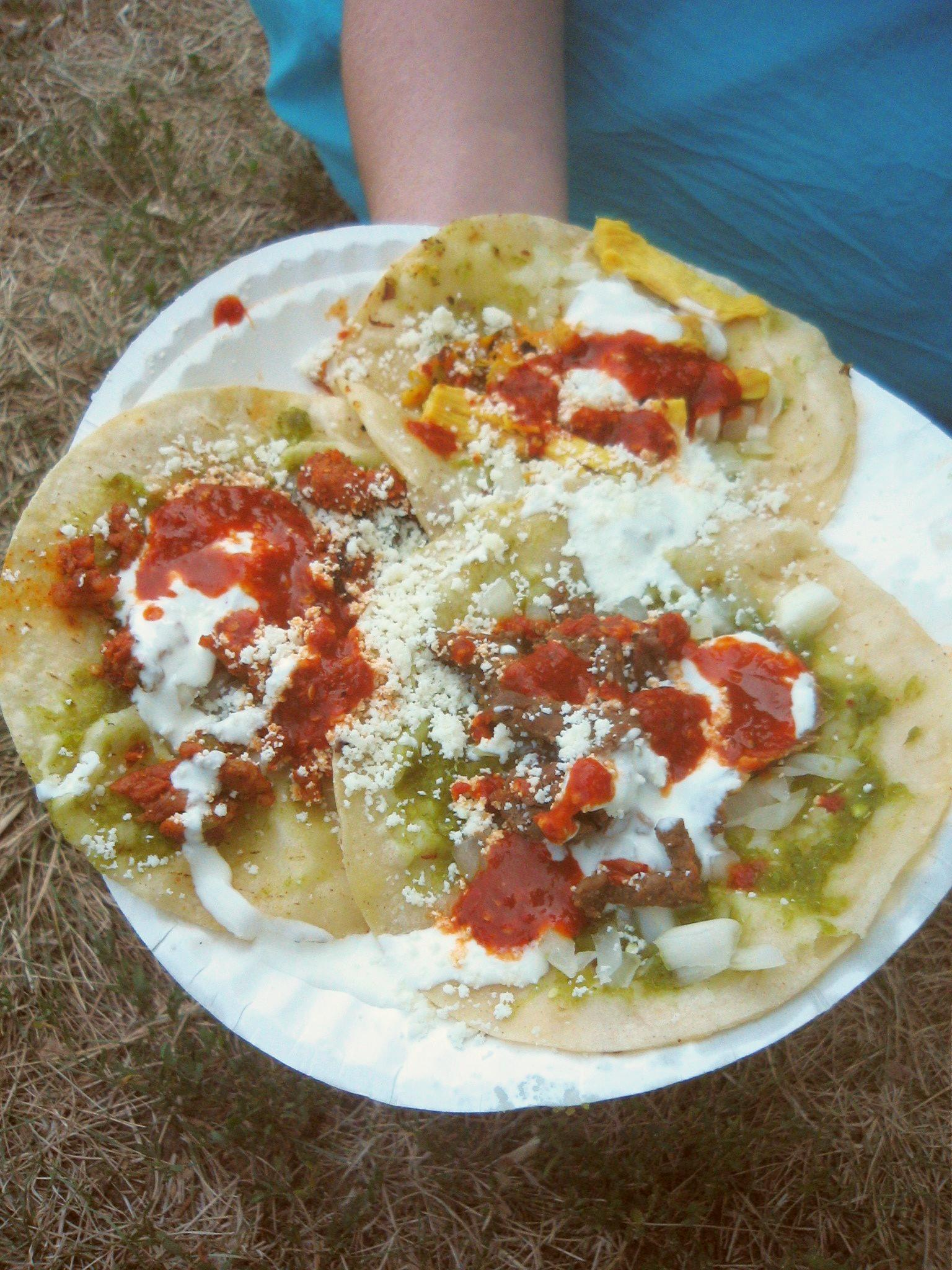 Chalupa in Mexican cuisine is a specialty of south-central Mexico, such as the states of Puebla, Guerrero and Oaxaca. It is made by pressing a thin layer of masa maize dough around the outside of a small mold and deep frying to produce a crisp shallow cup. A chalupa is served filled with various ingredients such as shredded chicken, pork, chopped onion, chipotle pepper, red salsa, and green salsa.